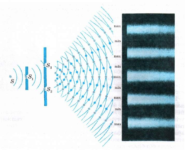 Fizika 4.10